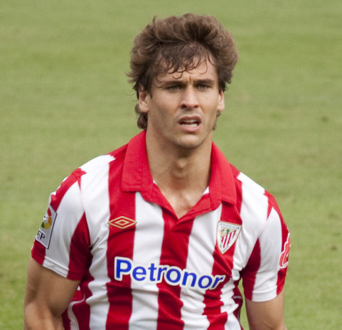 Fernando Llorente during the game, Hércules-Athletic Bilbao held at the José Rico Pérez Stadium, corresponding to the Round 1 a league of the season 2010/11.